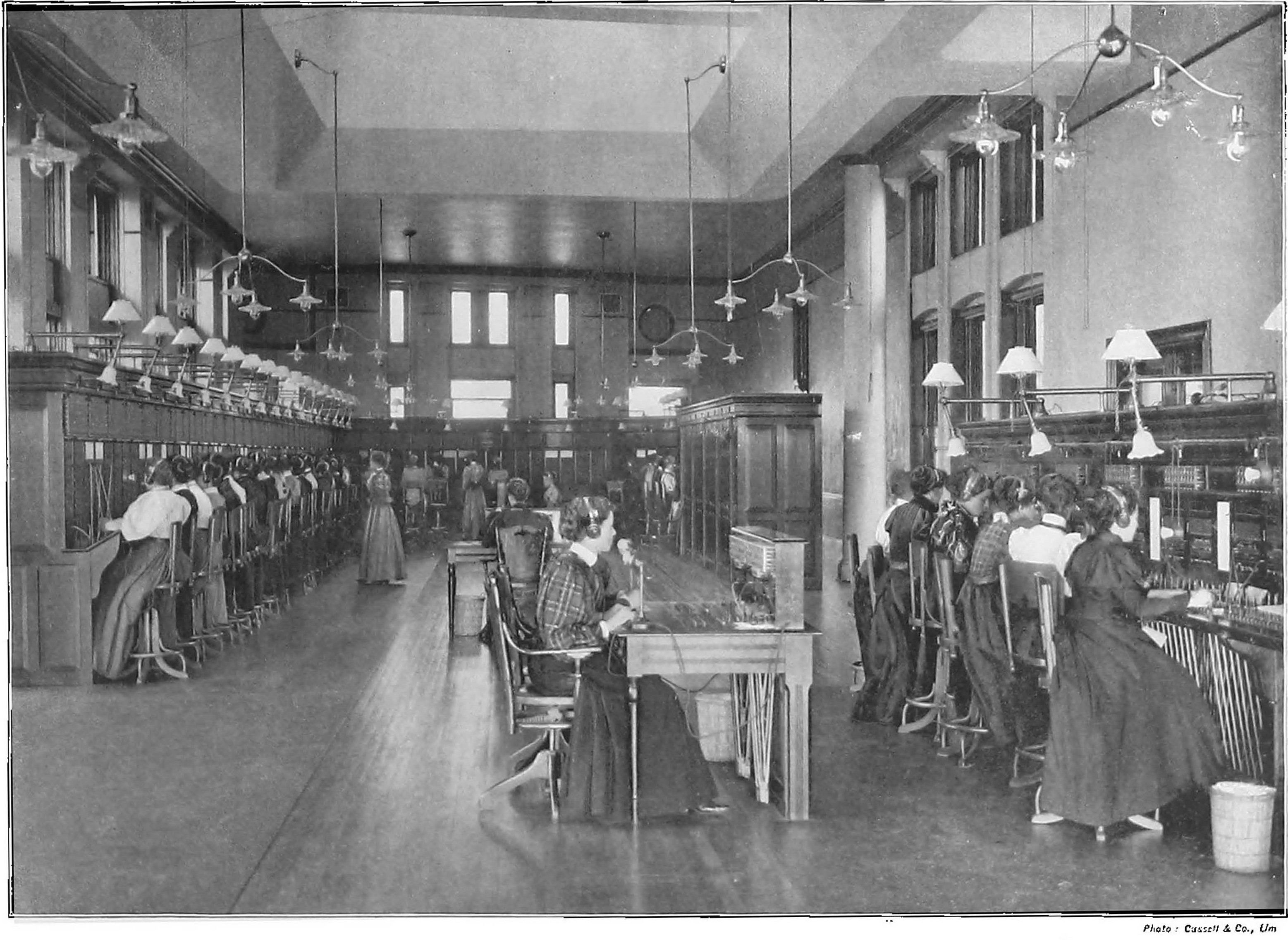 Women operators working at the Bell Telephone Company exchange in Montreal, Quebec, Canada. Original caption: "THE BELL TELEPHONE EXCHANGE, MONTREAL - London has still a good deal to learn both from large provincial towns and from the great Colonial capitals in the matter of Telephone Exchanges and efficient telephonic communication. We here see the interior of a very well-equipped office in Montreal. The operating room, which is [?] feet long, is well lit by a large skylight in the roof. The operators, as it will be seen, are all ladies. Owing to the general use of return wires, and to the absence of the very great amount of induction which exists in London, the telephone has hitherto been adopted with greater readiness in the Colonies and in the large towns than in the Metropolis. In Montreal, not to be "on the telephone" is the exception. Hitherto the contrary has been the case in London. Now, however, great strides are being made in the direction of providing proper exchanges and adequate return wires in London, and it is to be hoped that before long neither Montreal nor Manchester will be able to reproach the capital with its backwardness."